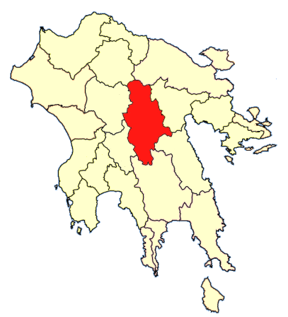 mantineia province